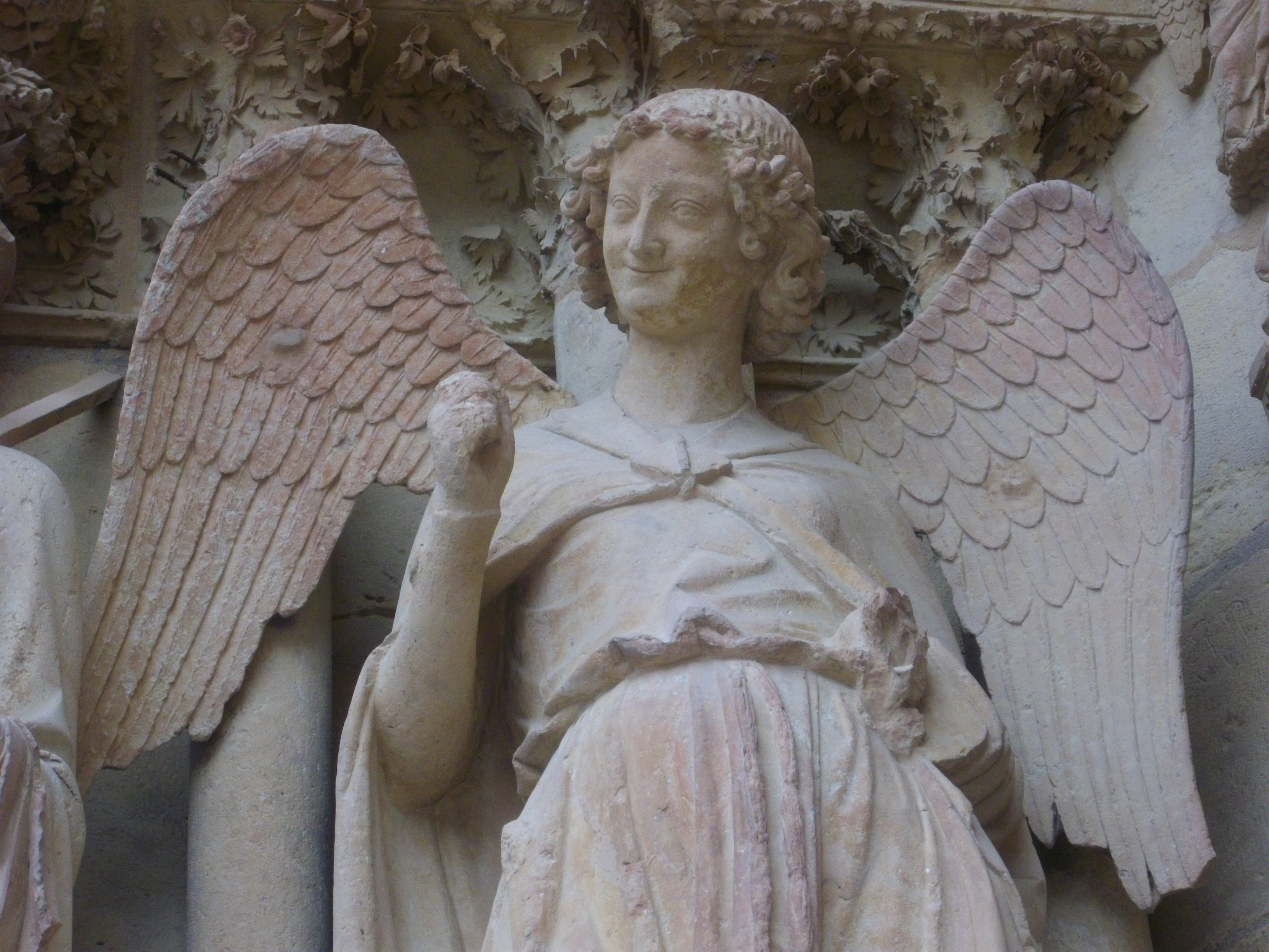 Our Lady cathedral of Reims (Marne, France). Statue of Smiling Angel .